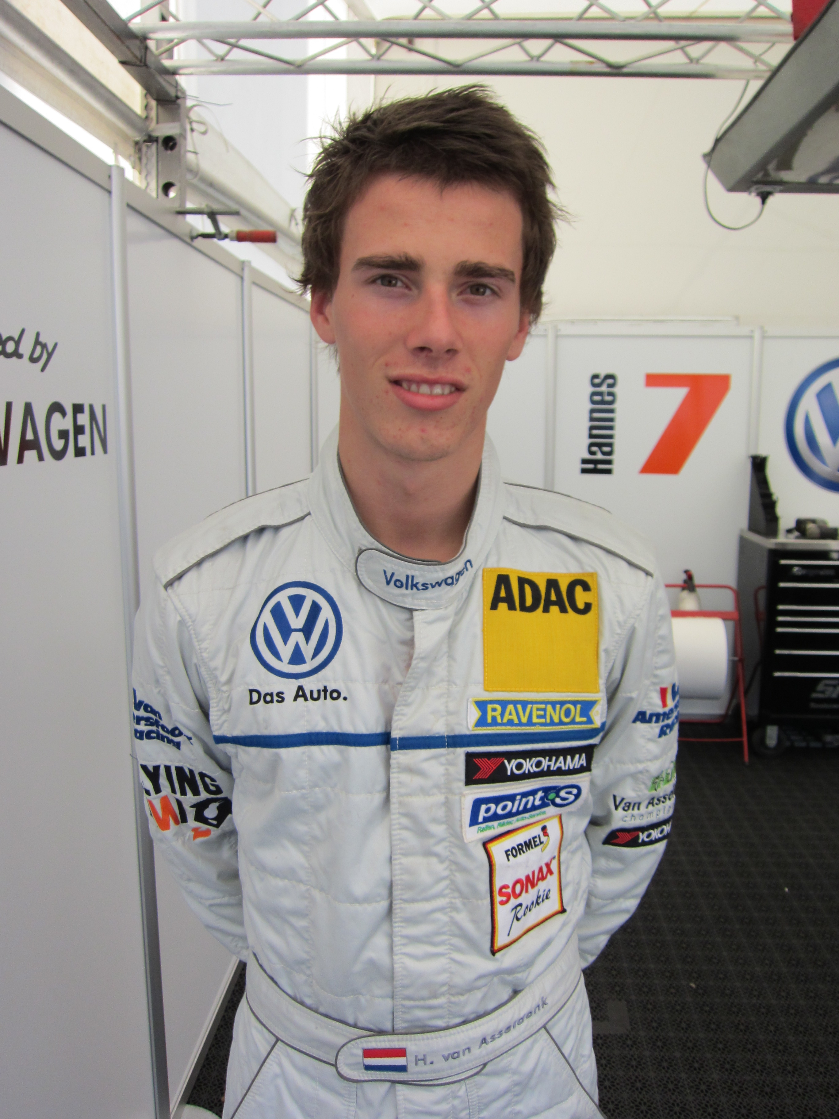 Hannes van Asseldonk: the photo was taken during 2011's ADAC GT Masters race weekend at Hockenheim